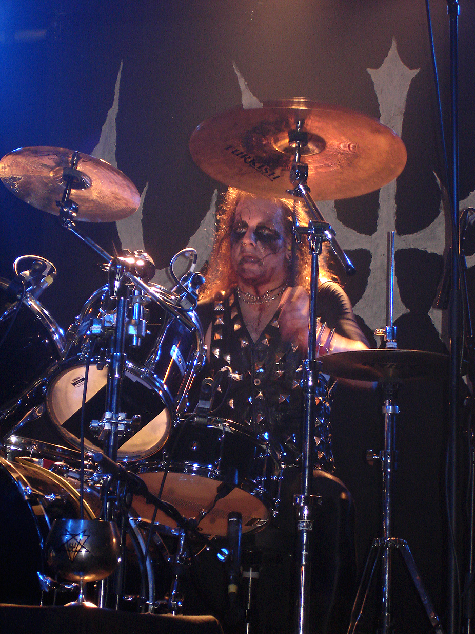 Watain´s drummer.